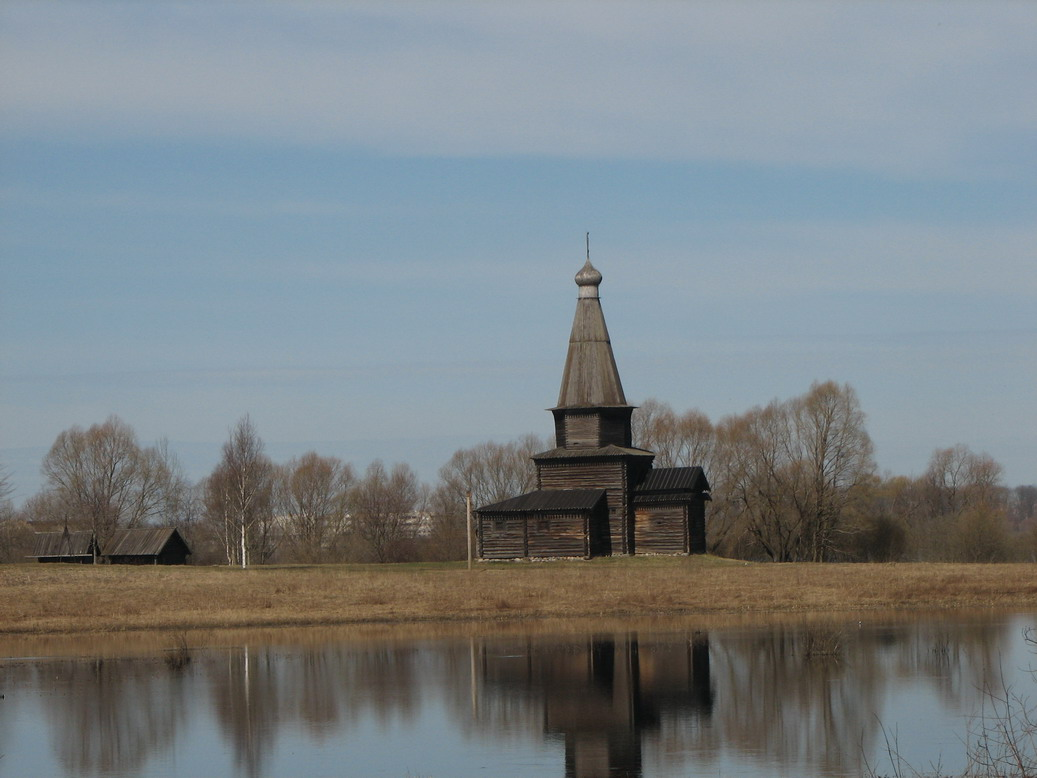 Wood buildings museum in Vitoslavlicy